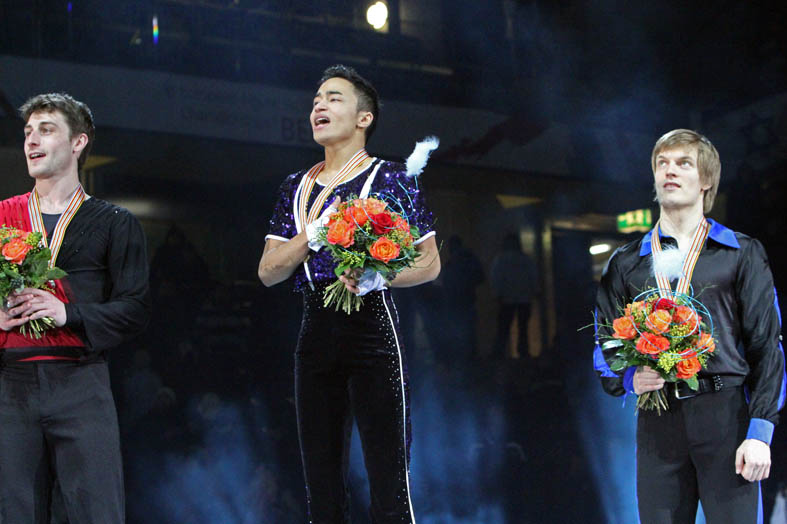 The men's podium at the 2011 European Figure Skating Championships. From left: Brian Joubert (2), Florent Amodio (1) and Tomáš Verner (3)